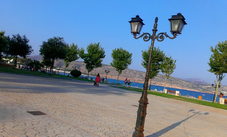 varkiza